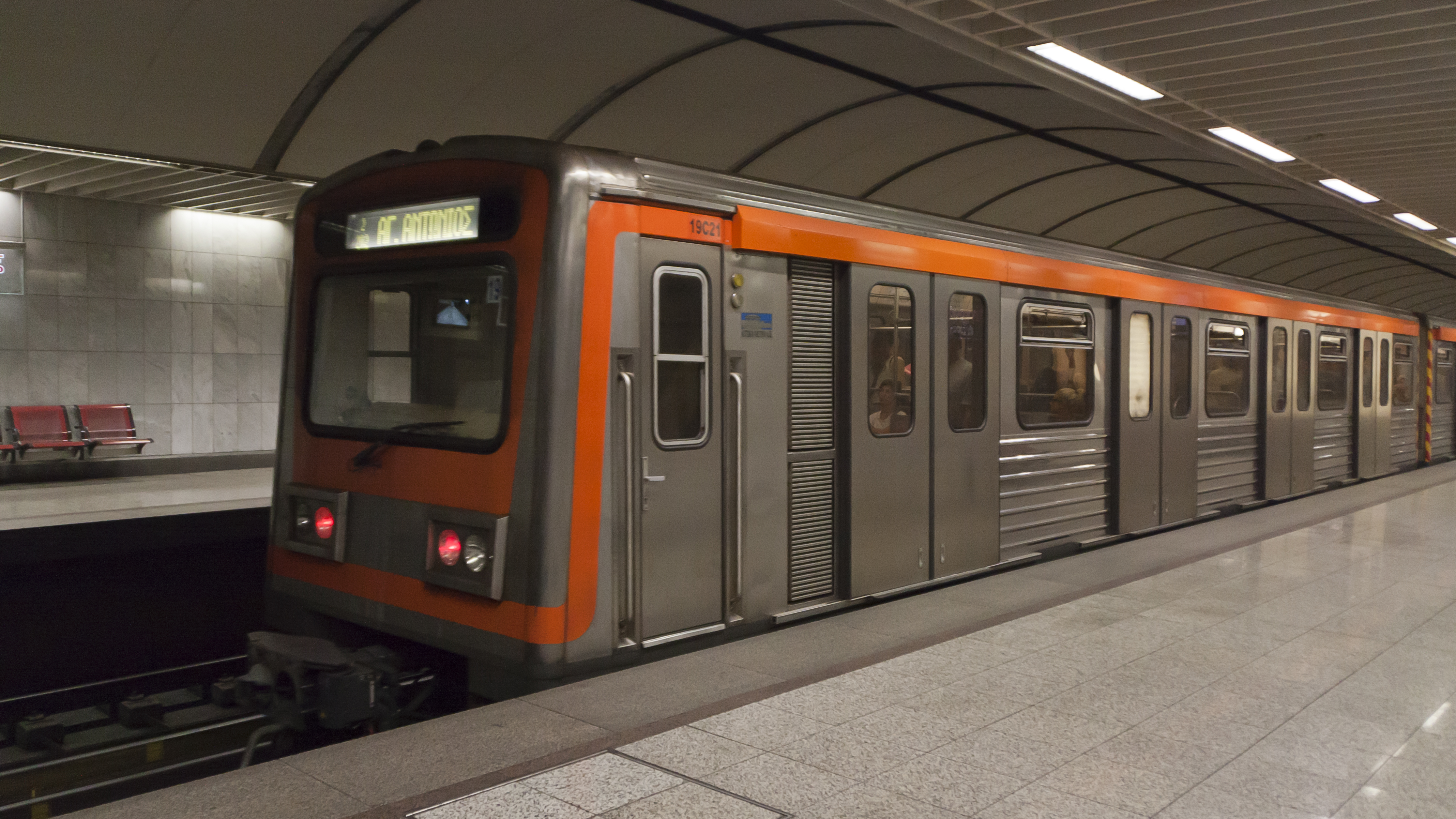 Athens Metro Batch 1 Stock at Syngrou-Fix Station.